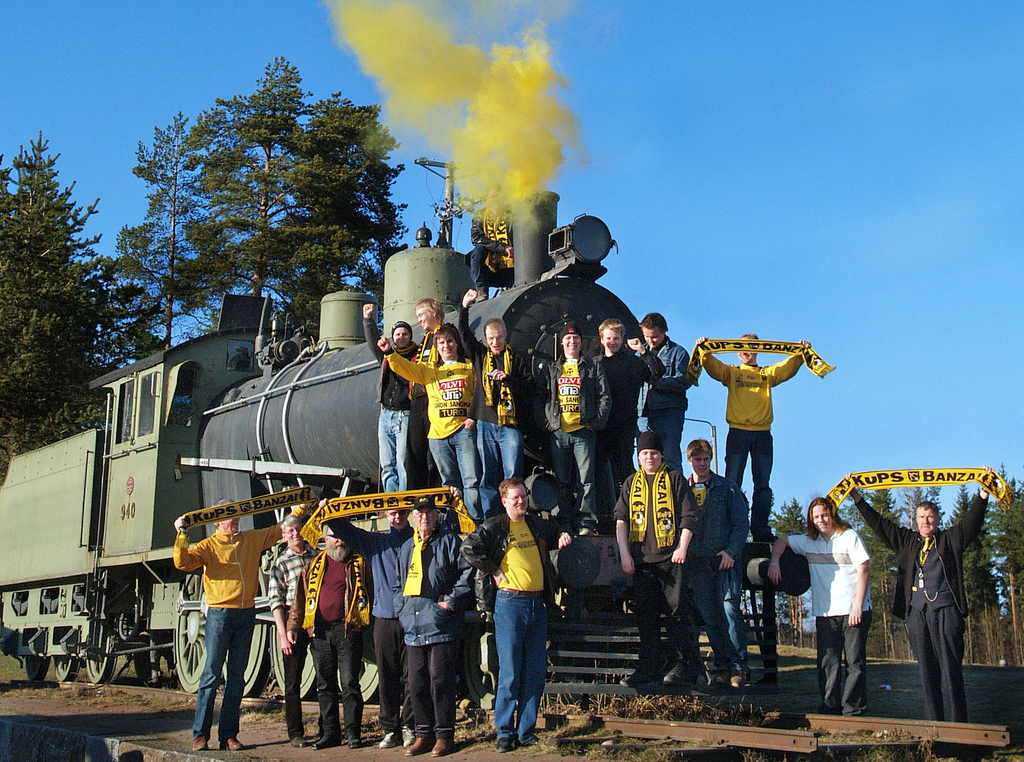 Banzai - Supporters of KuPS and "the Finnish Cup Train". On way back from Iisalmi after a decisive Cup victory.